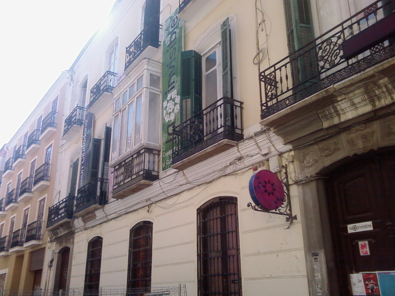 "La Casa Invisible" alternative social and cultural centre, Málaga, Spain